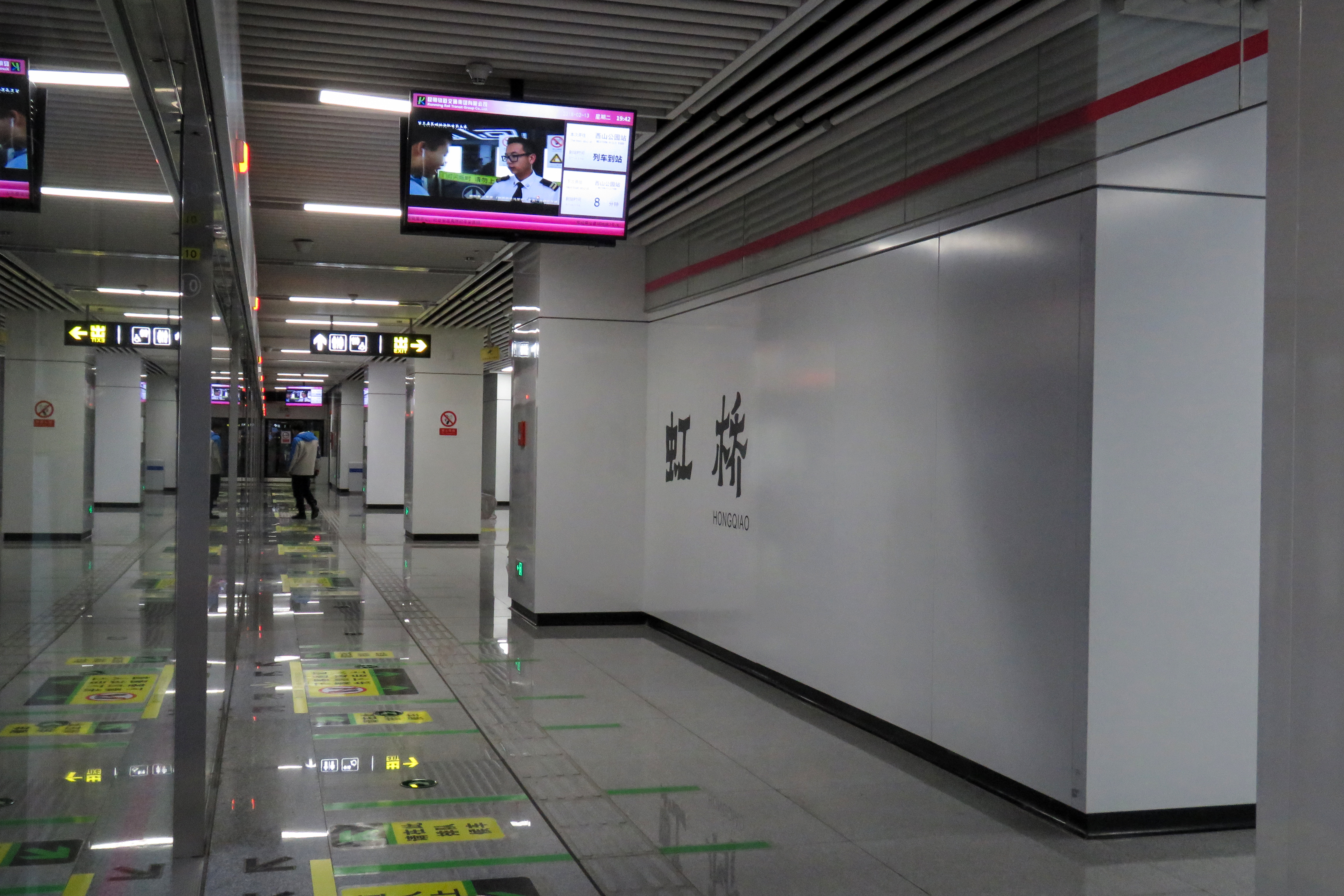 Neither SHA nor AOH... just Hongqiao Village in Guandu District, Kunming.